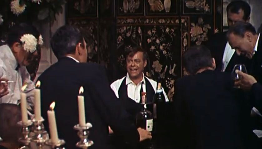 Max Showalter (center) in How to Murder Your Wife - trailer (cropped screenshot)